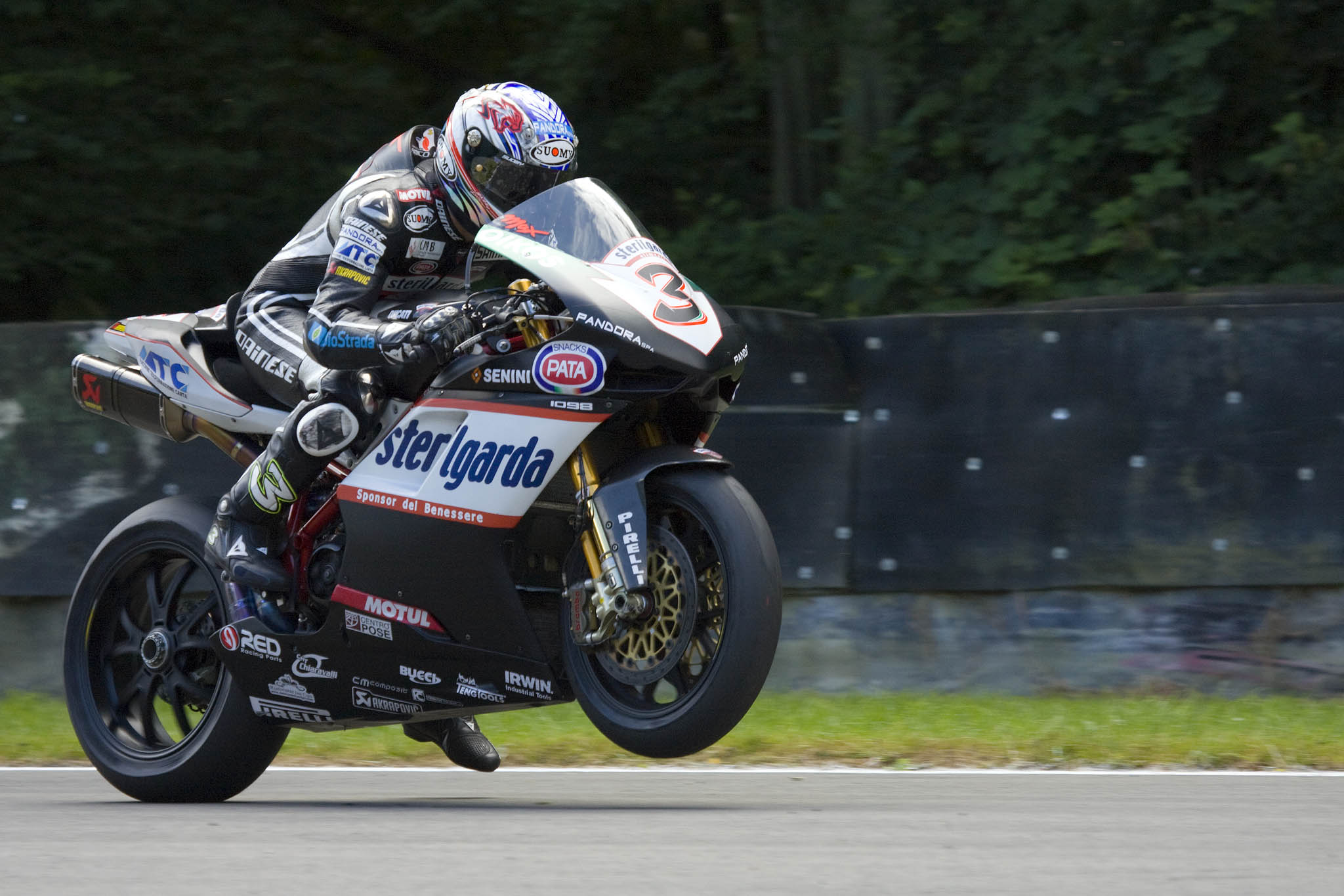 Brands Hatch World Superbike Meeting August 2008 Practice Day. Practice start - Stirlings